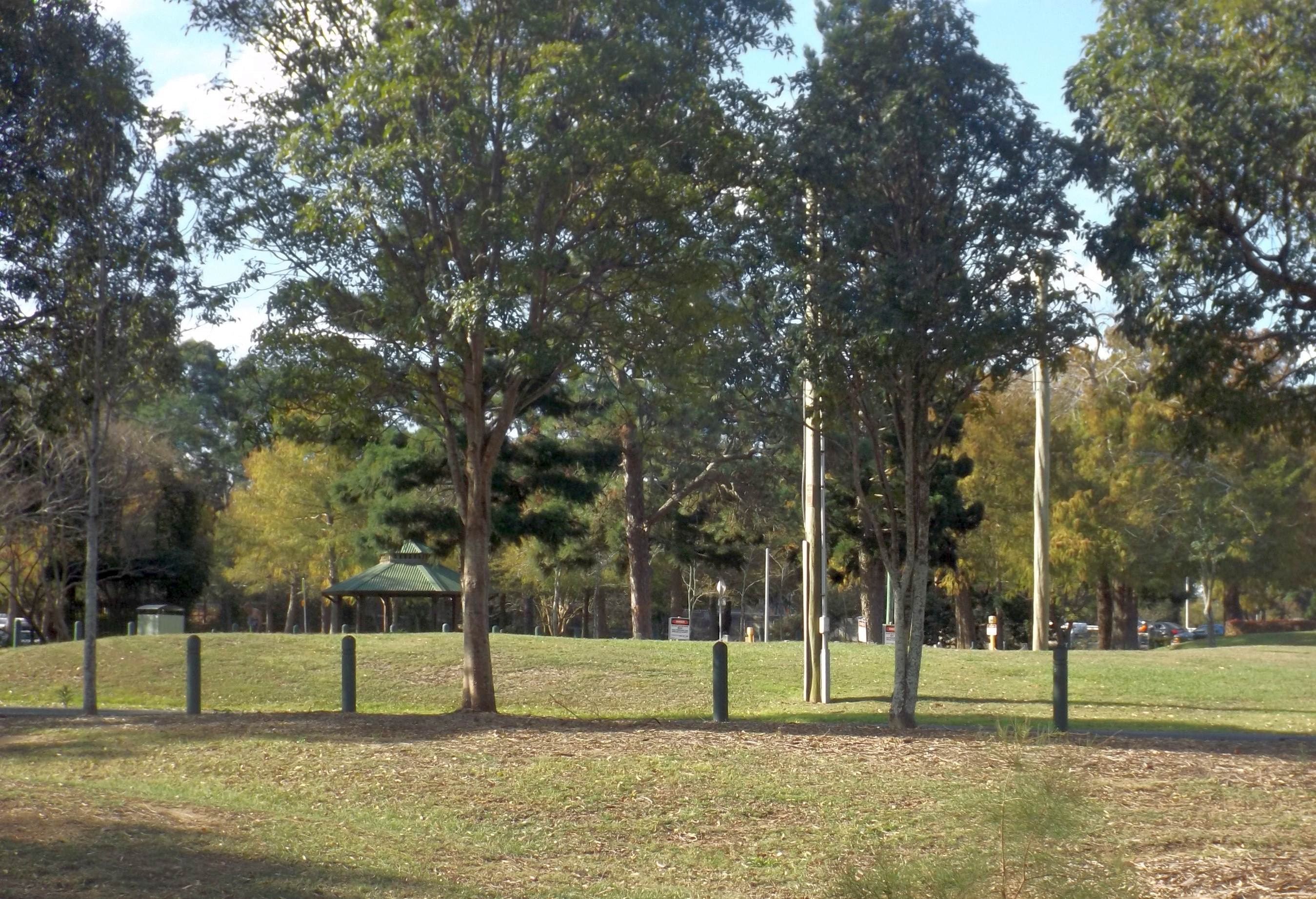 Photo of grassed area at Petrie Road Rest Area at Petrie, Moreton Bay Region, Queensland, Australia.